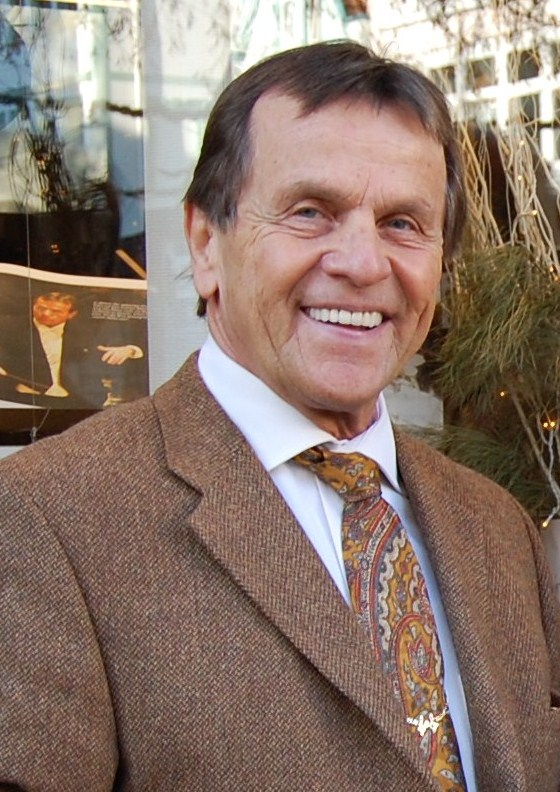 Johannes R. Köhler (* 1933), german composer and author